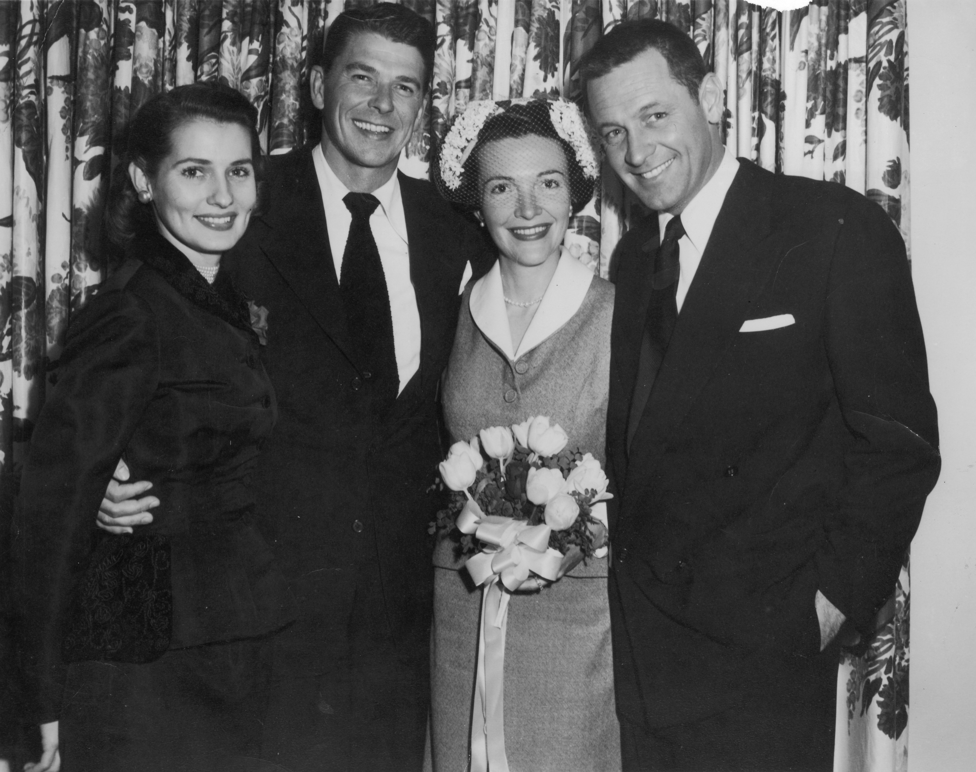 Nancy and Ronald Reagan — 1952 wedding day picture, with best man William Holden and his wife Brenda Marshall. No copyright renewal listed.